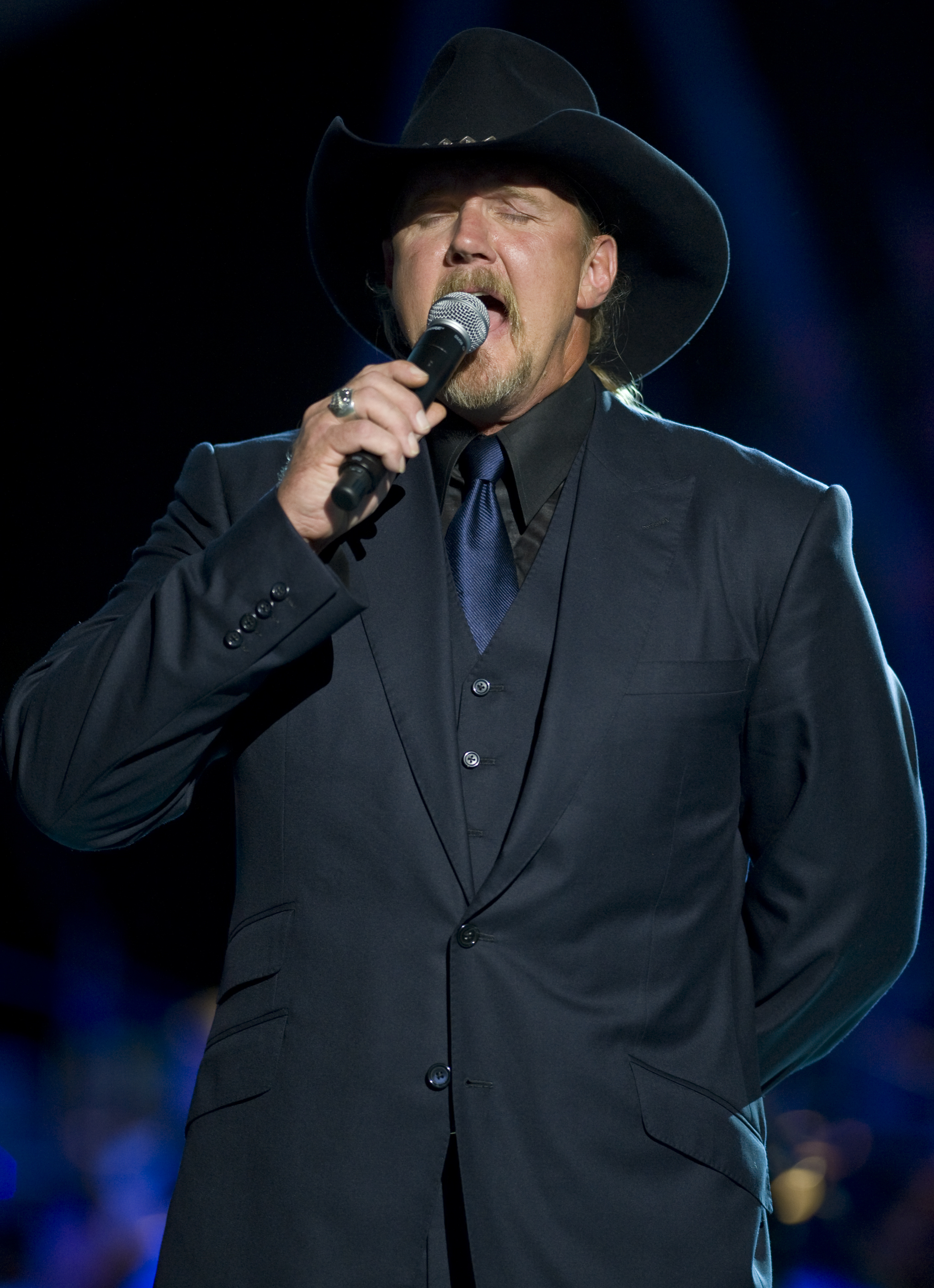 Country singer Trace Adkins performs at the National Memorial Day Concert in Washington, D.C., May 24, 2009.